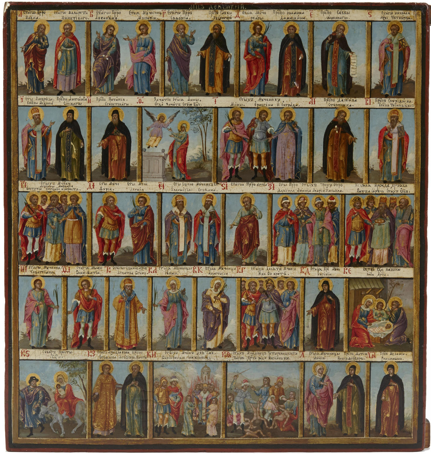 Icon of the Minea for December. Russia, c. 1750-1800, tempera on wood with gilding, 39.3 x 37.3cm (15 1/2 x 14 11/16in) Literature: Wendy R. Salmond, Tradition in Transition: Russian Icons in the Age of the Romanovs, Hillwood Museum & Gardens, Washington, DC, 2004, plate 6, p. 44